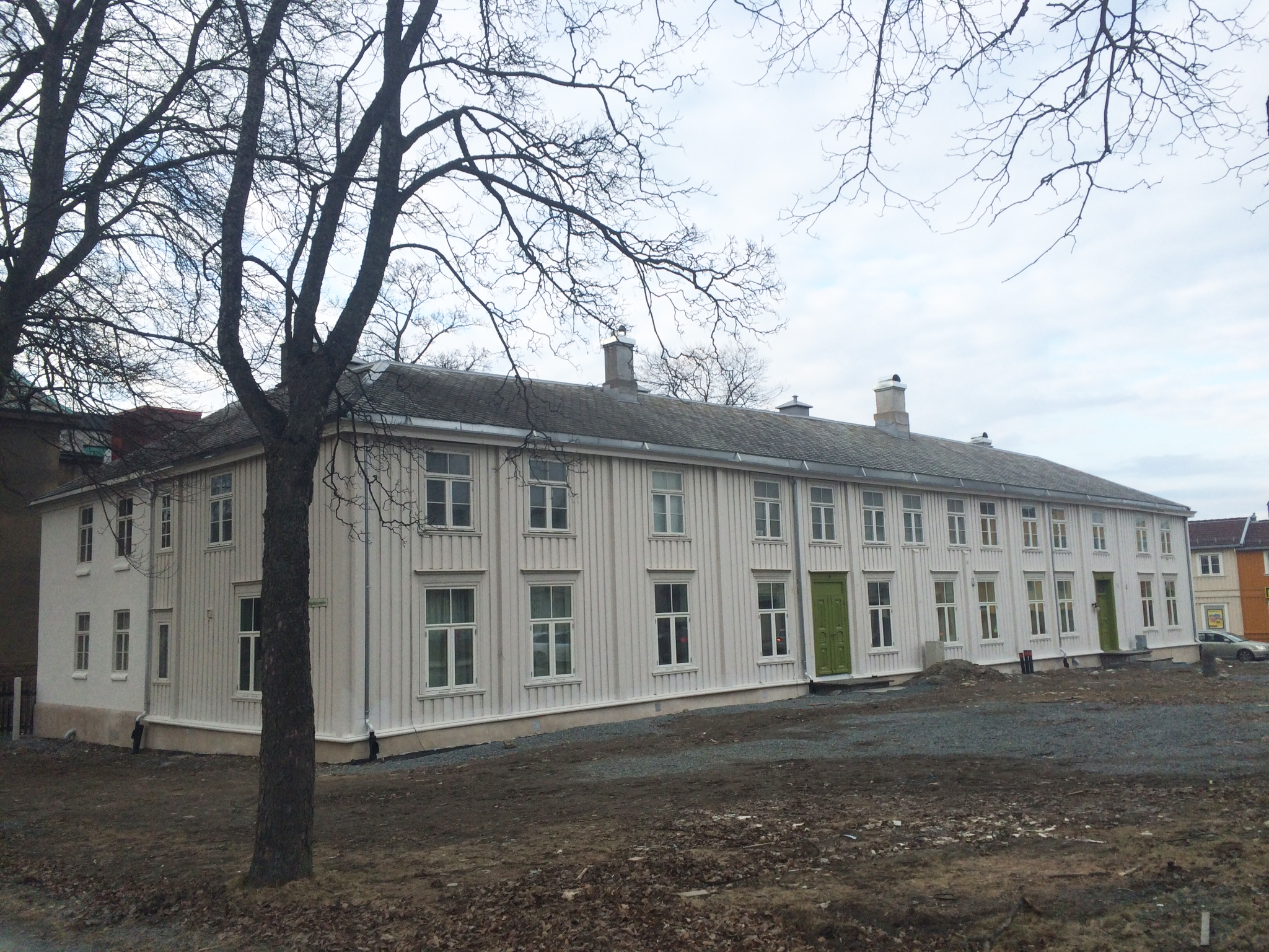 Main building of Elgeseter gård(=farm), Trondheim. Age unknown, architect unknown. Owned by the Norwegian government. Use today: Flats